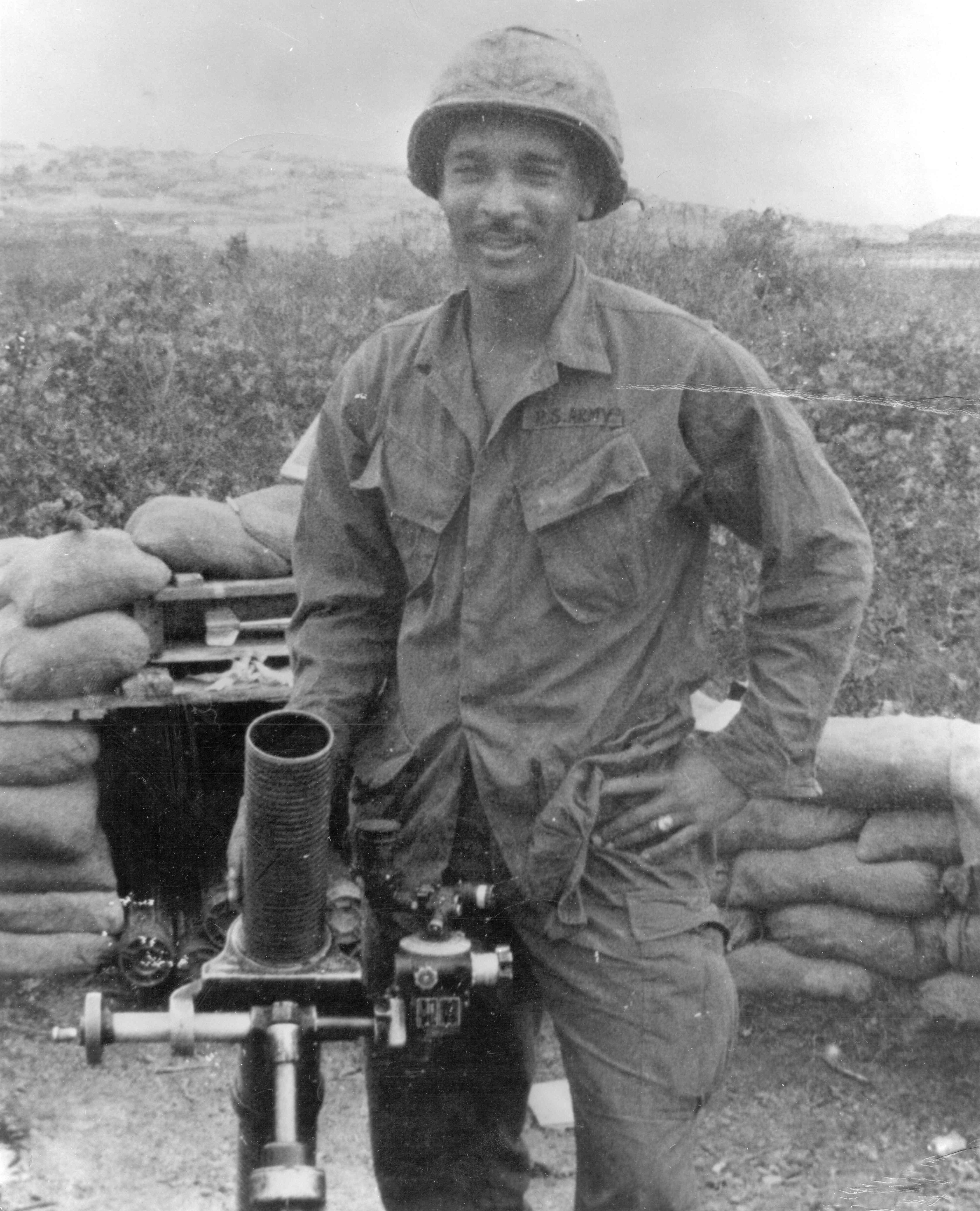 Image of Medal of Honor recipient Héctor Santiago-Colón